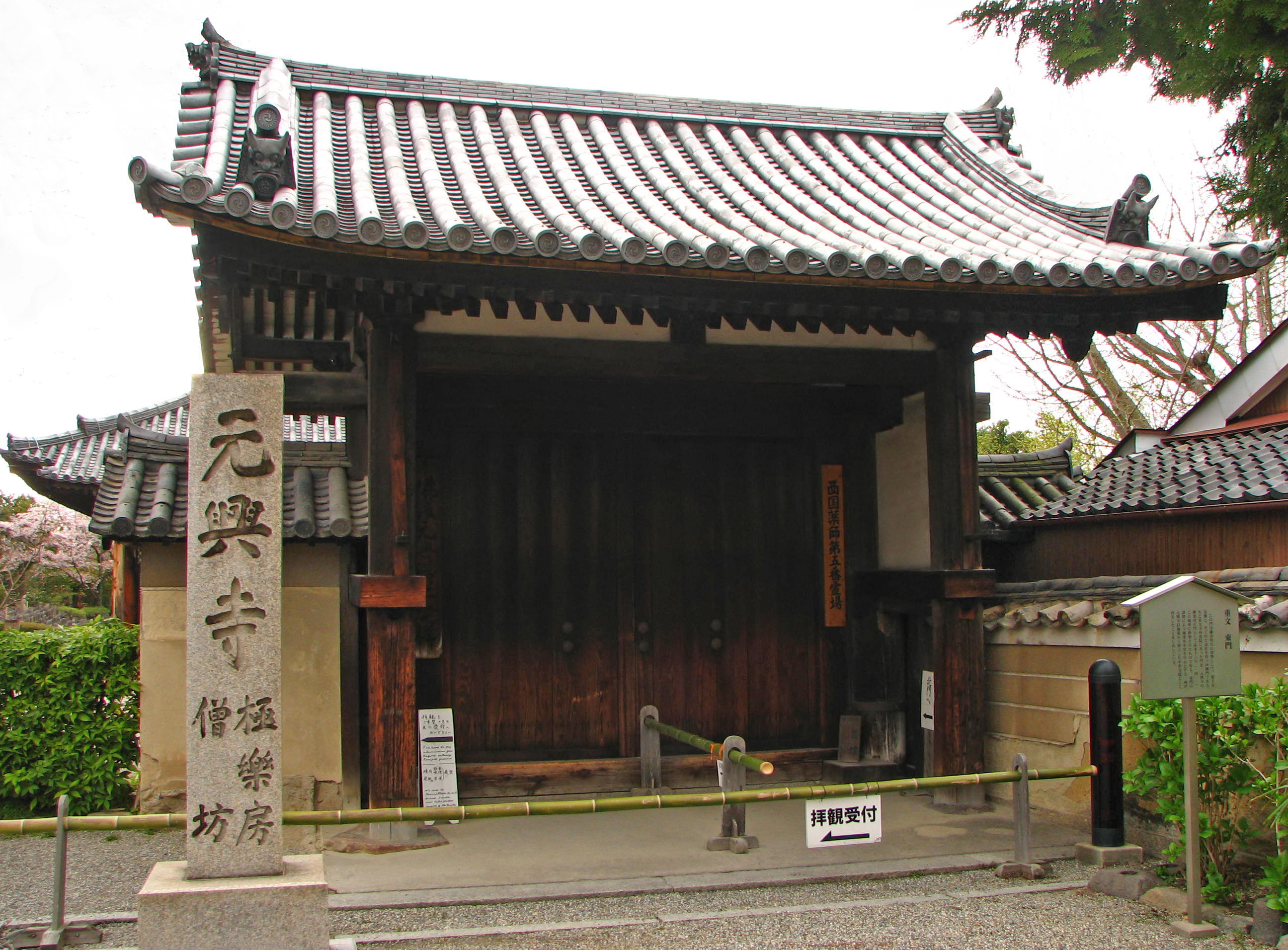 Gango-ji temple gate, Nara, Nara Prefecture, Japan